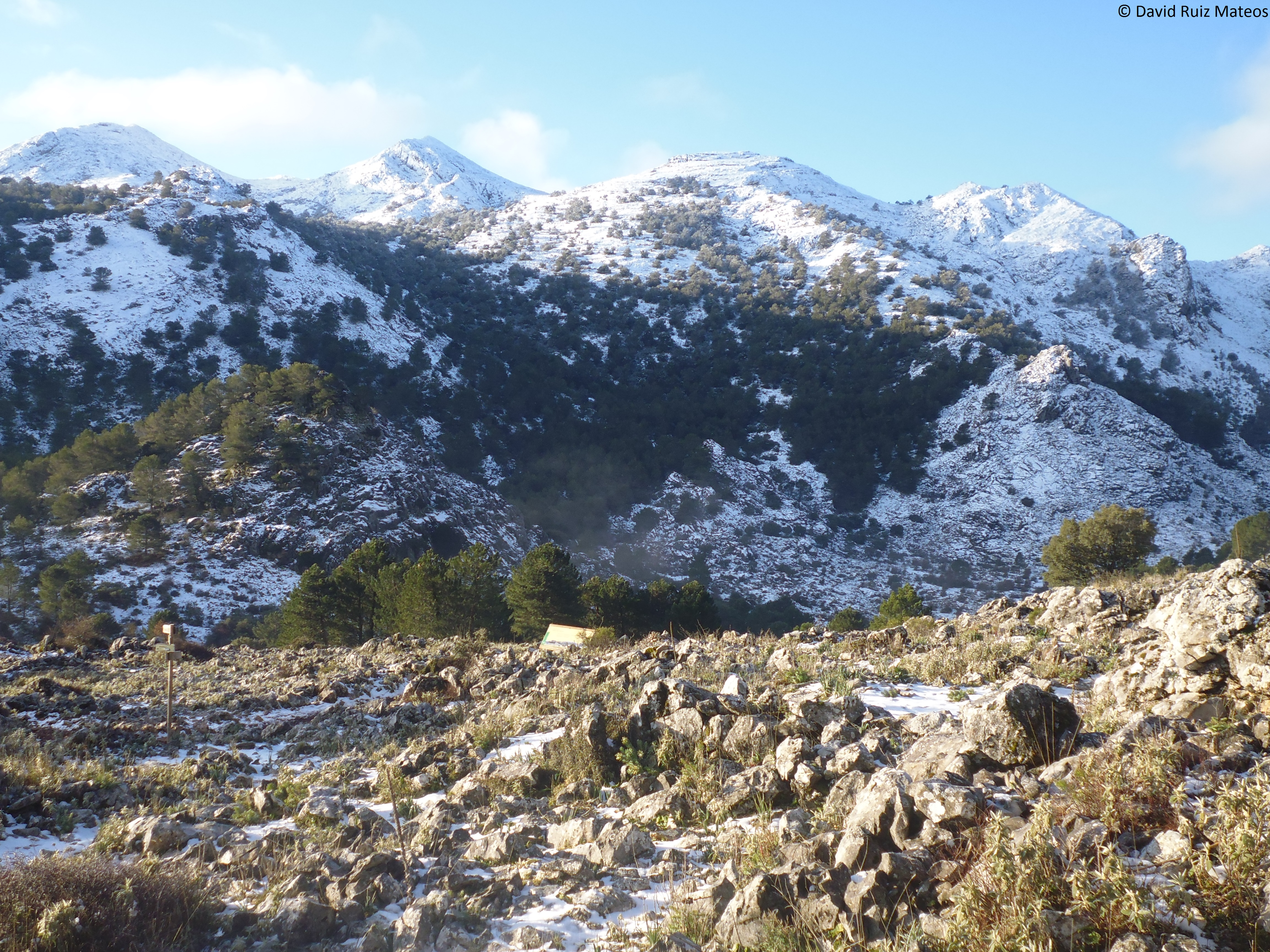 This is an image of the Biosphere Reserve or a Geopark: Sierra de Grazalema Natural Park